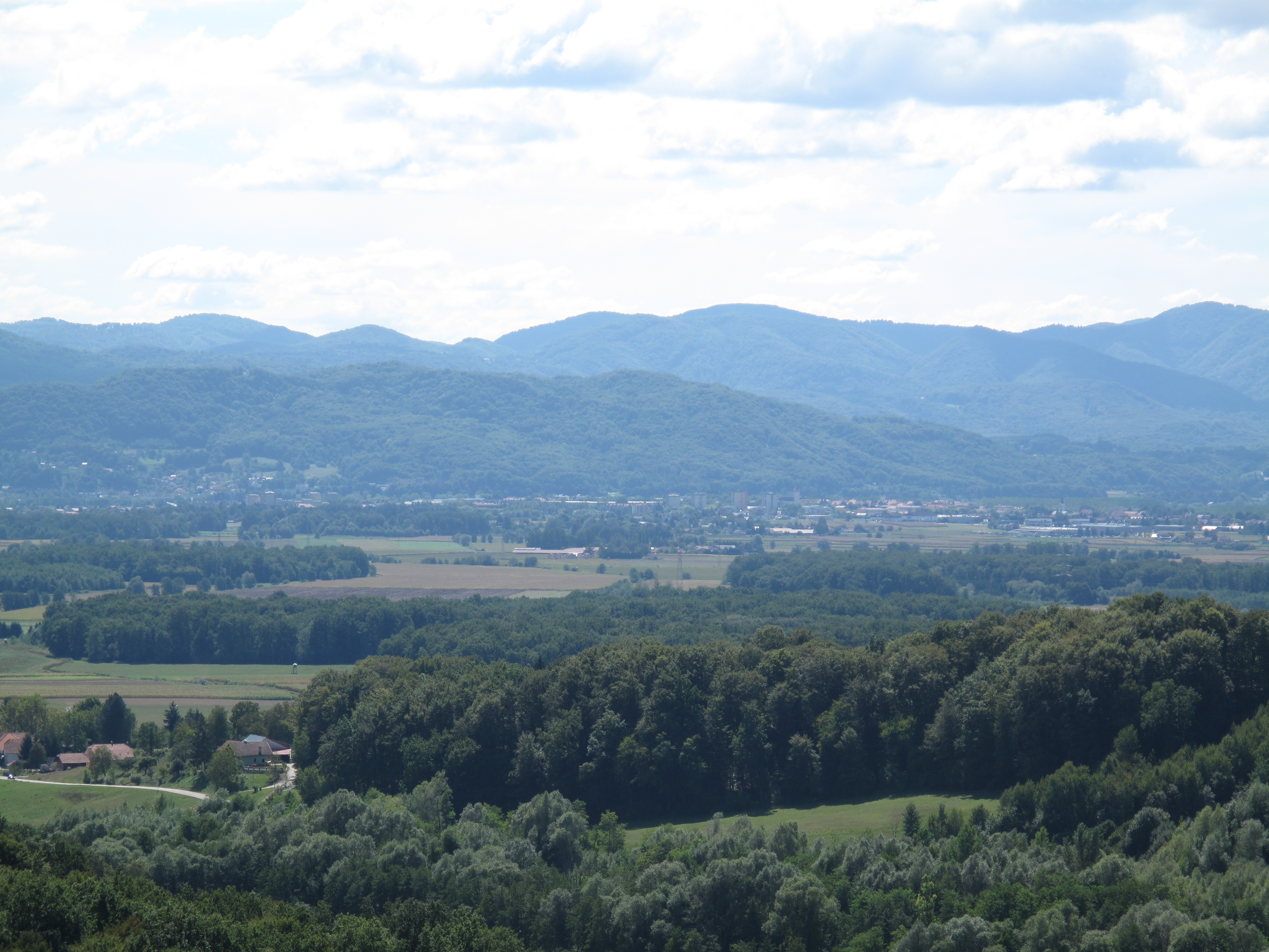 The view on the town Brežice from the church of saint Barbara, Piršenbreg (Slovenia)